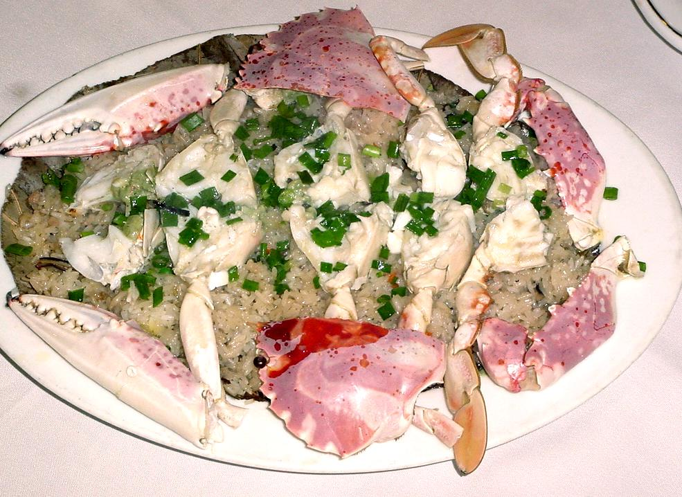 Hokkien steamed glutinous rice with cral crab